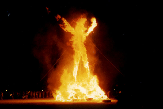 The burning man, from the Burning Man Festival